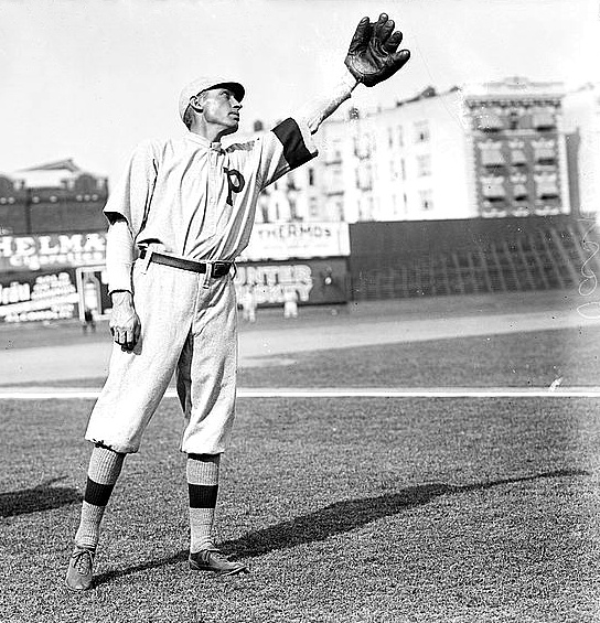 "Dode Paskert, Philadelphia, NL (baseball))" A c1911 image, from the Bain News Service, of Dode Paskert, a baseball player.